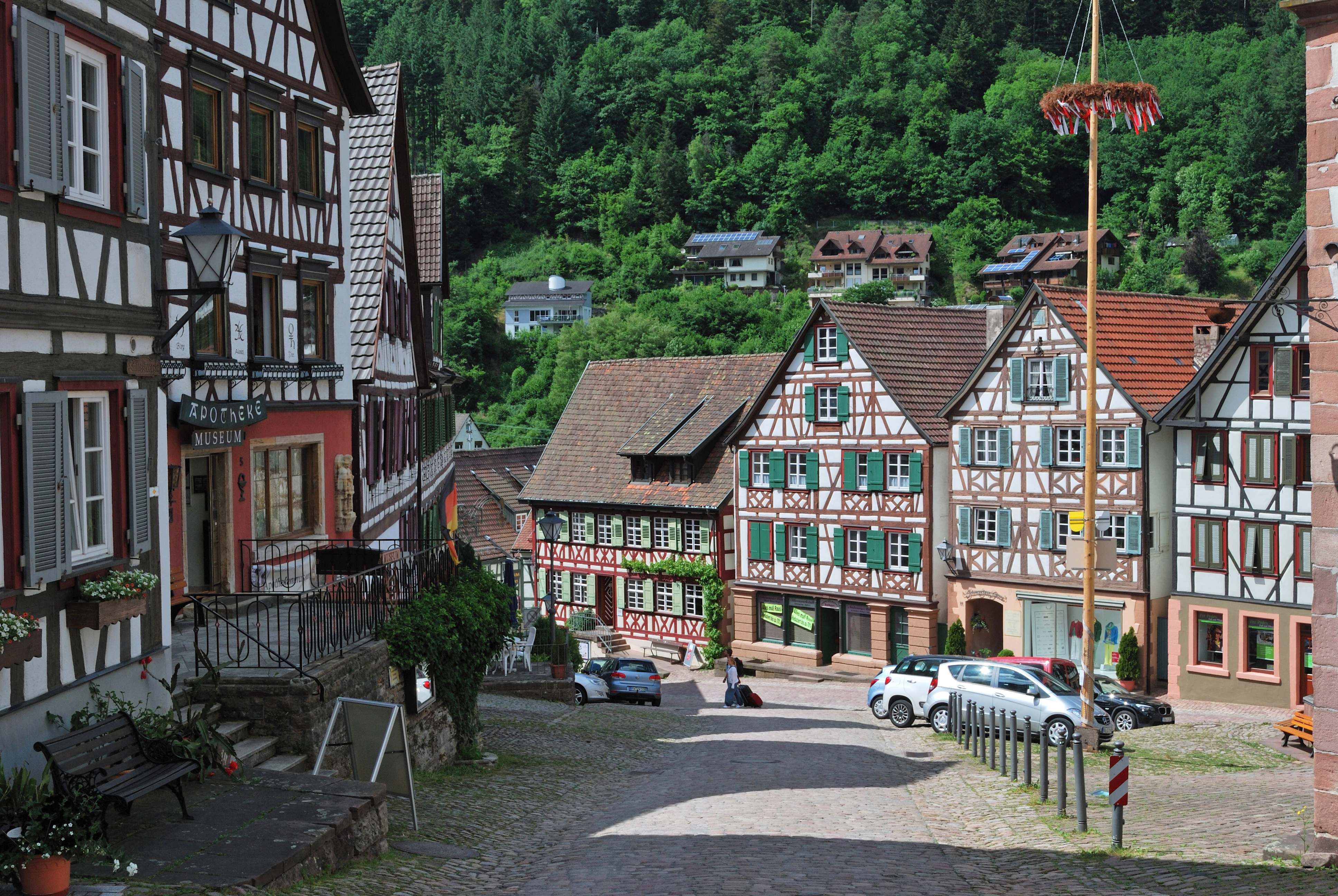 Timber framing on the Market Place in Schiltach in the Black Forest, federal state Baden-Württemberg in Southern Germany.